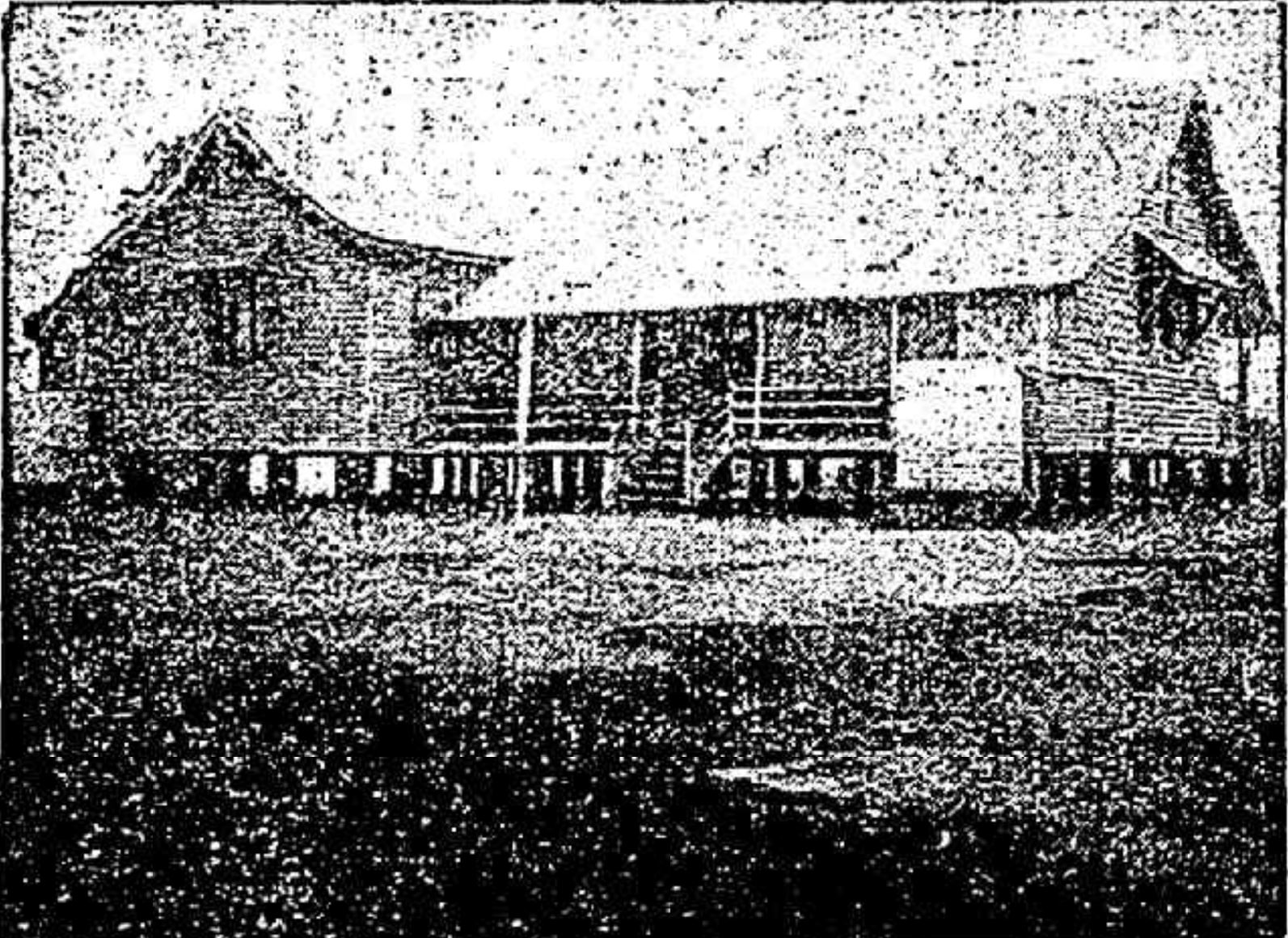 Enoggera State School building, erected 1871, subsequently relocated and extended to form the Enoggera Memorial Hall and School of Arts